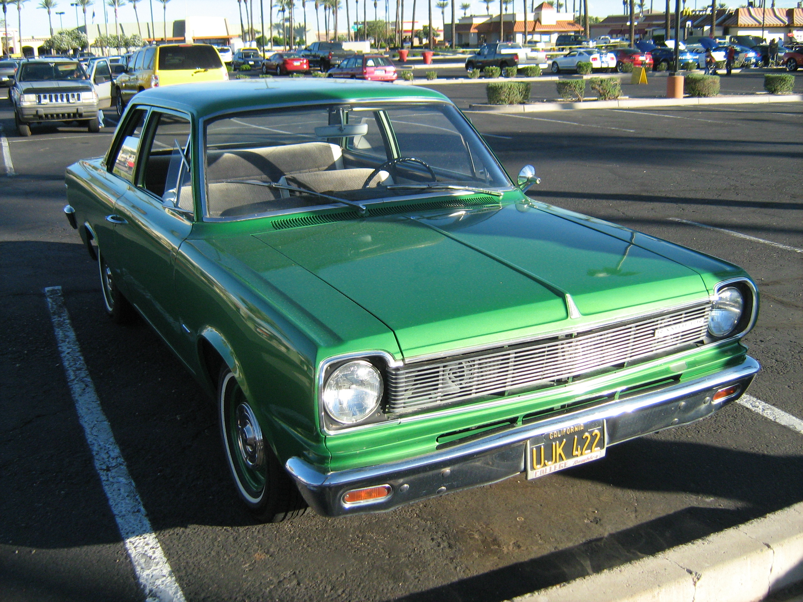 1967 Rambler American 220 (base model) two-door sedan made by American Motors Corporation (AMC).